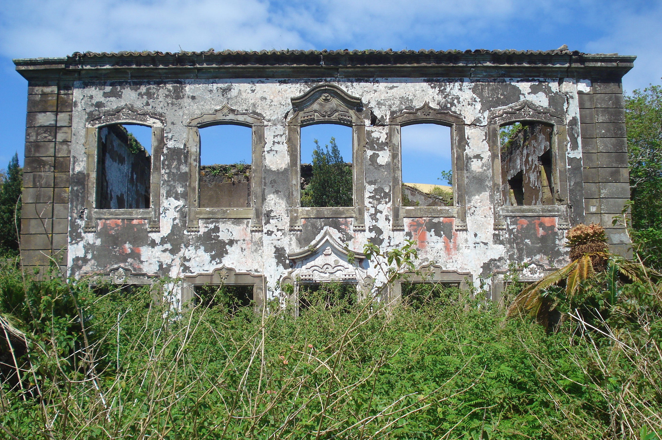 The main formal entrance to the Palacete of Pilar in the civil parish of Conceição, municipality of Horta (Azores), Portugal